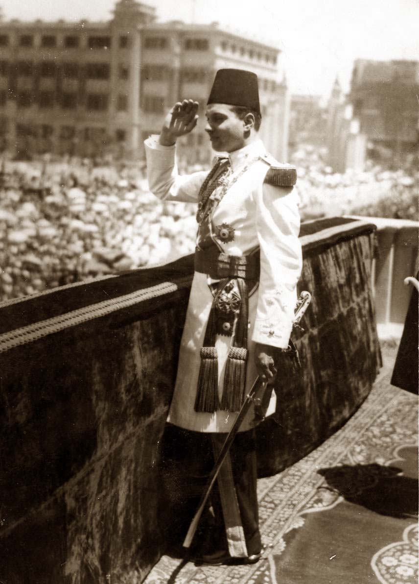 King Farouk I of Egypt wearing the royal military uniform and saluting Egyptian citizens assembled in Abdeen Square in Cairo.